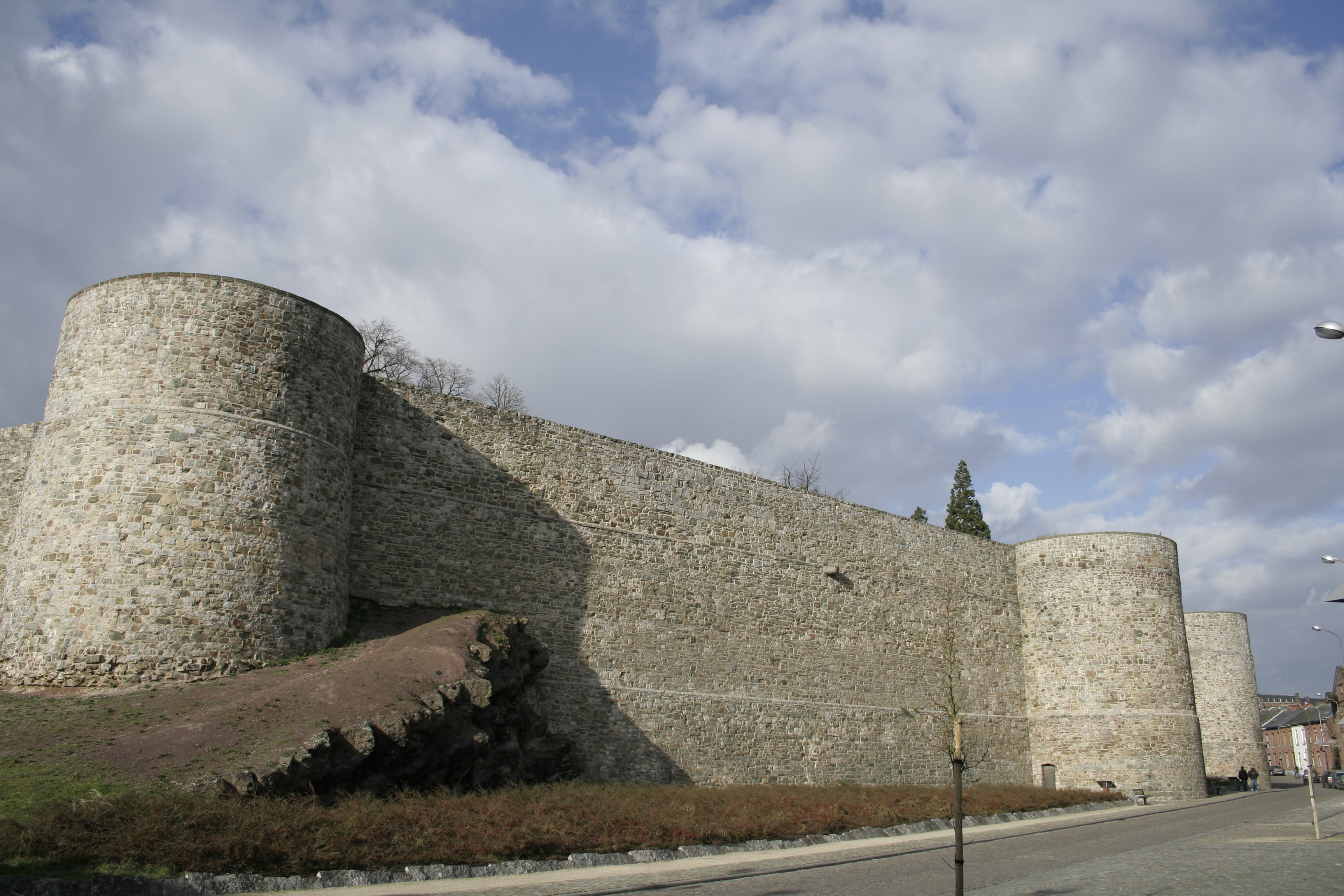 Binche (Belgium), the medieval surrounding wall (XIVth century).